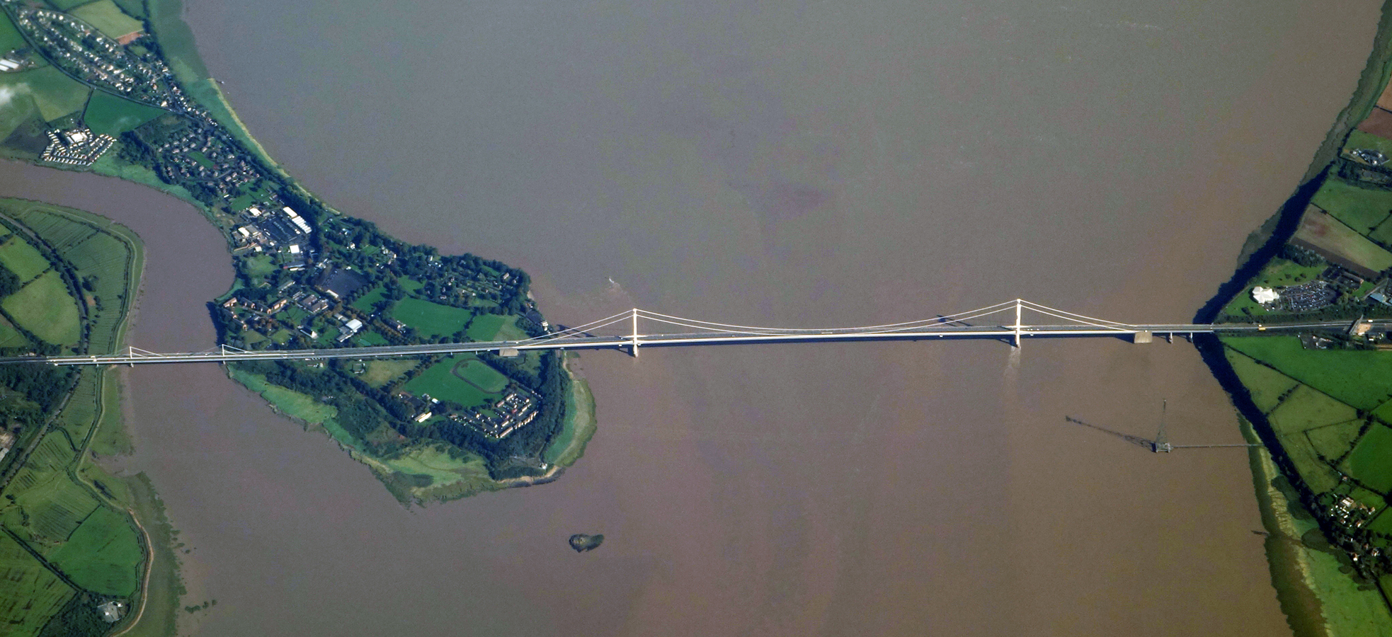 The Severn Bridge in England taken from around 30,000 ft up in an airplane.